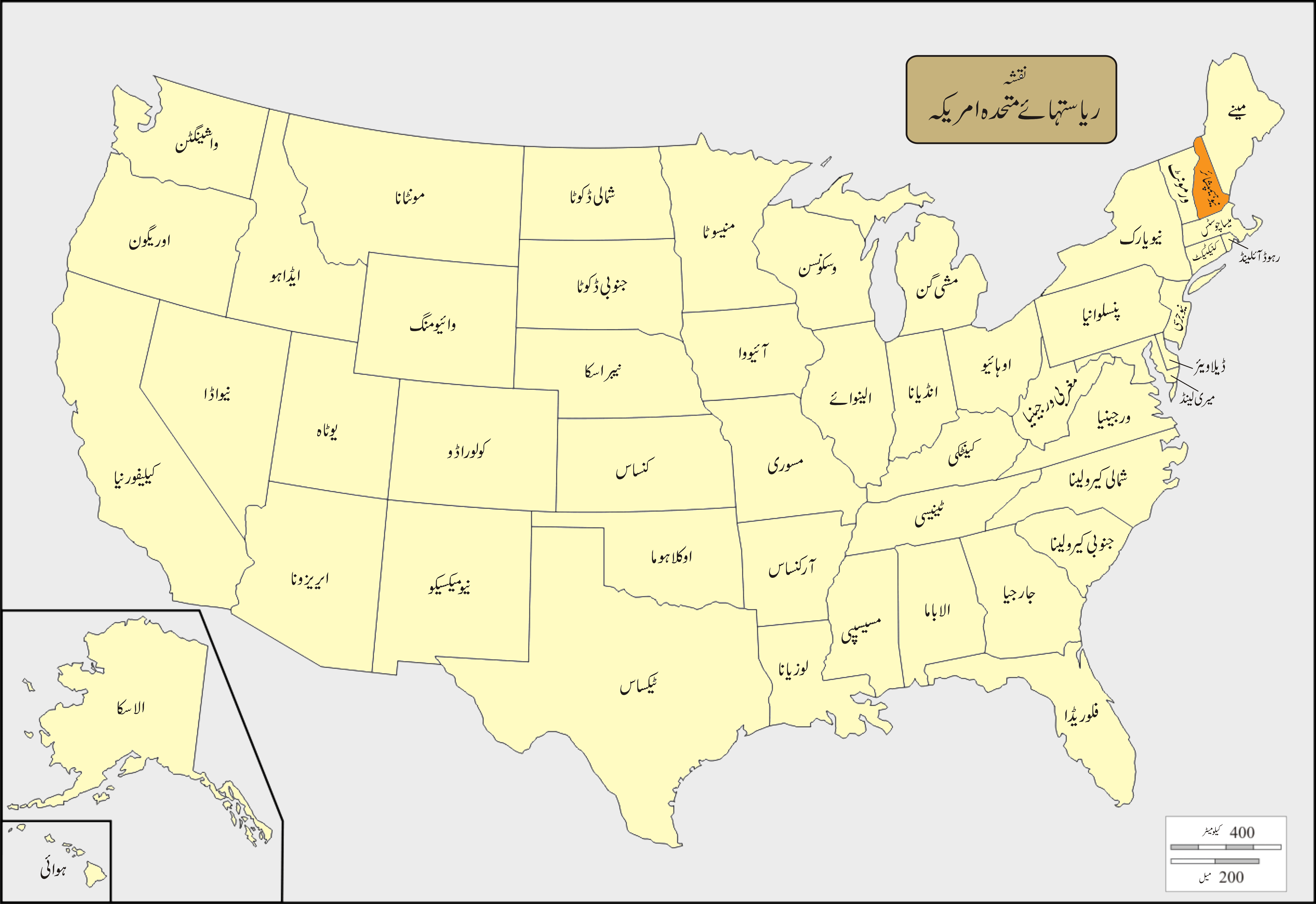 USA Names New Hampshire